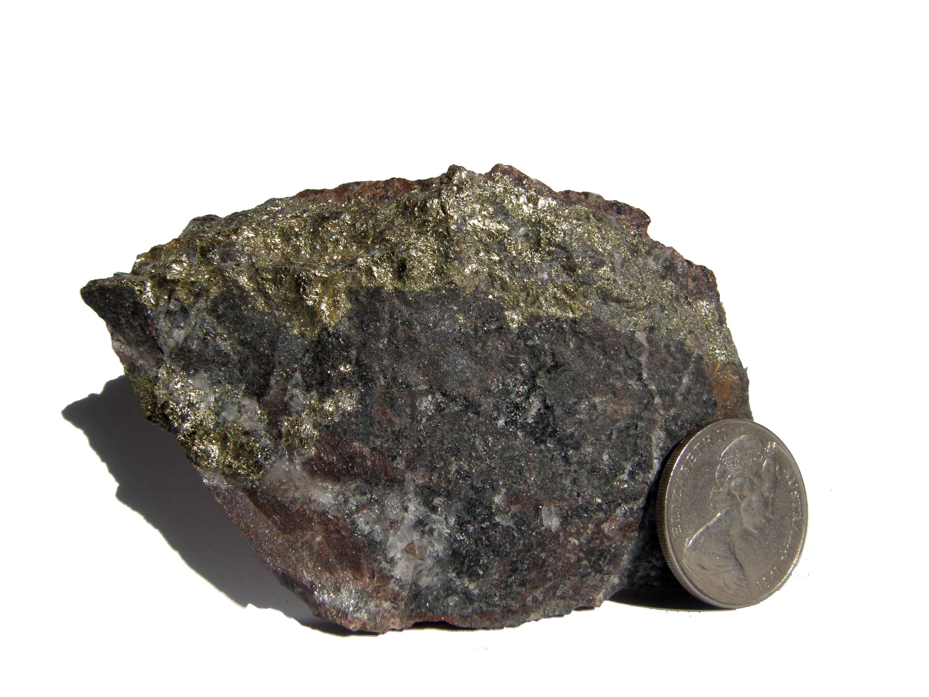 Ore from Olympic Dam: massive chalcopyrite in strongly hematised breccia